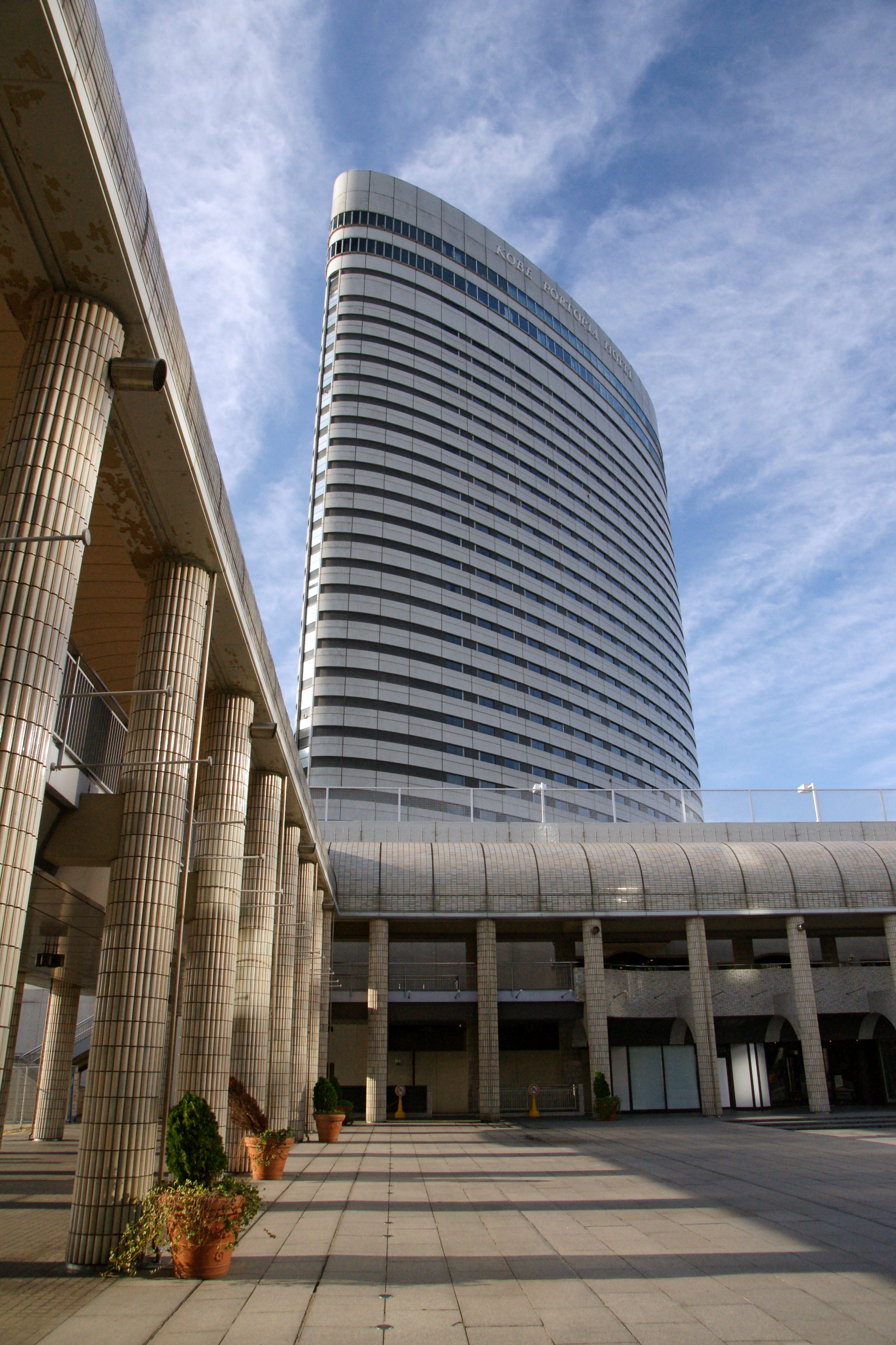 Portopia Hotel, Kobe, Hyogo prefecture, Japan